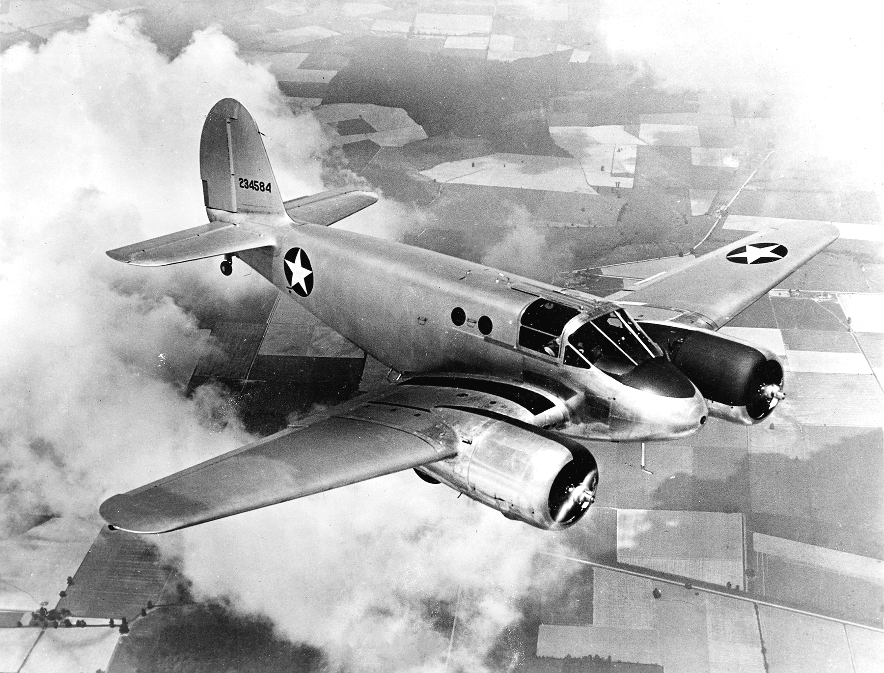 A U.S. Army Air Forces Beechcraft AT-10-GF Wichita (42-34584) in flight. This was one of the batch of 600 aircraft built by Globe Aircraft at Fort Worth, Texas (USA).